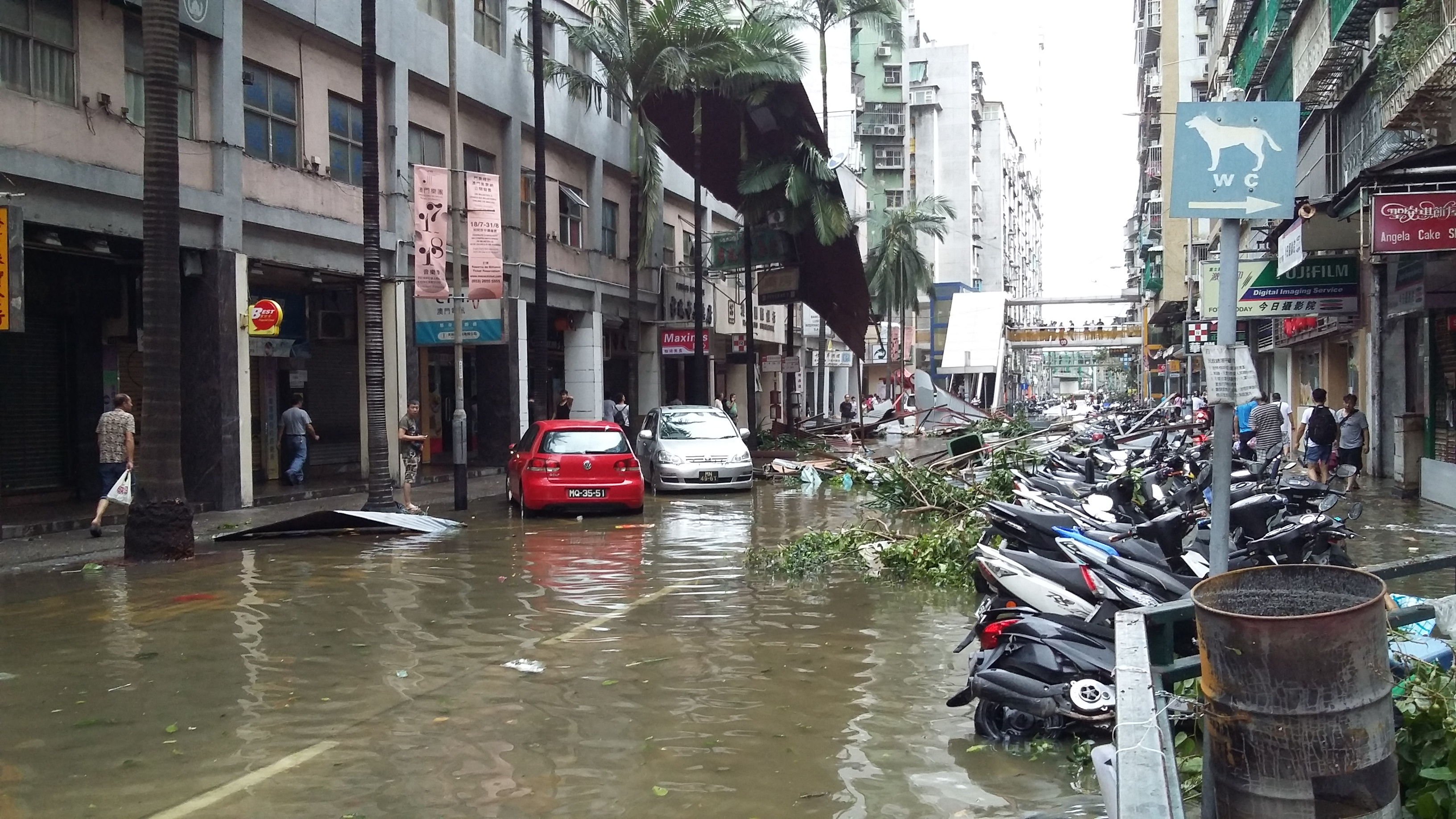 During the storm, at Freguesia de Nossa Senhora de Fátima.